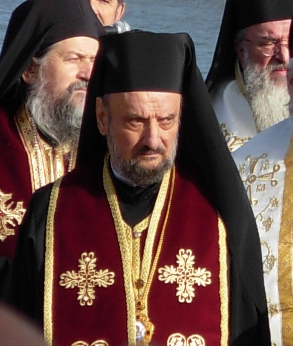 Basil (Vasilije), former bishop of Zvornik and Tuzla